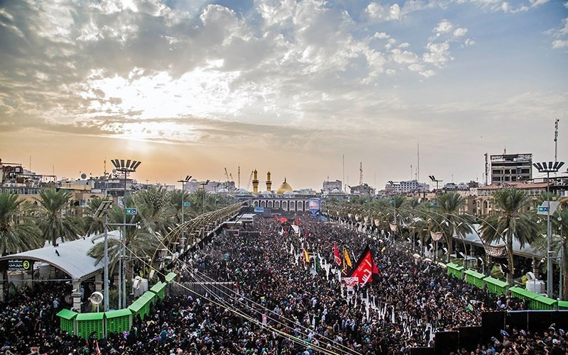 Arba'een Pilgrims in Bayn al-Harmian- November 2017